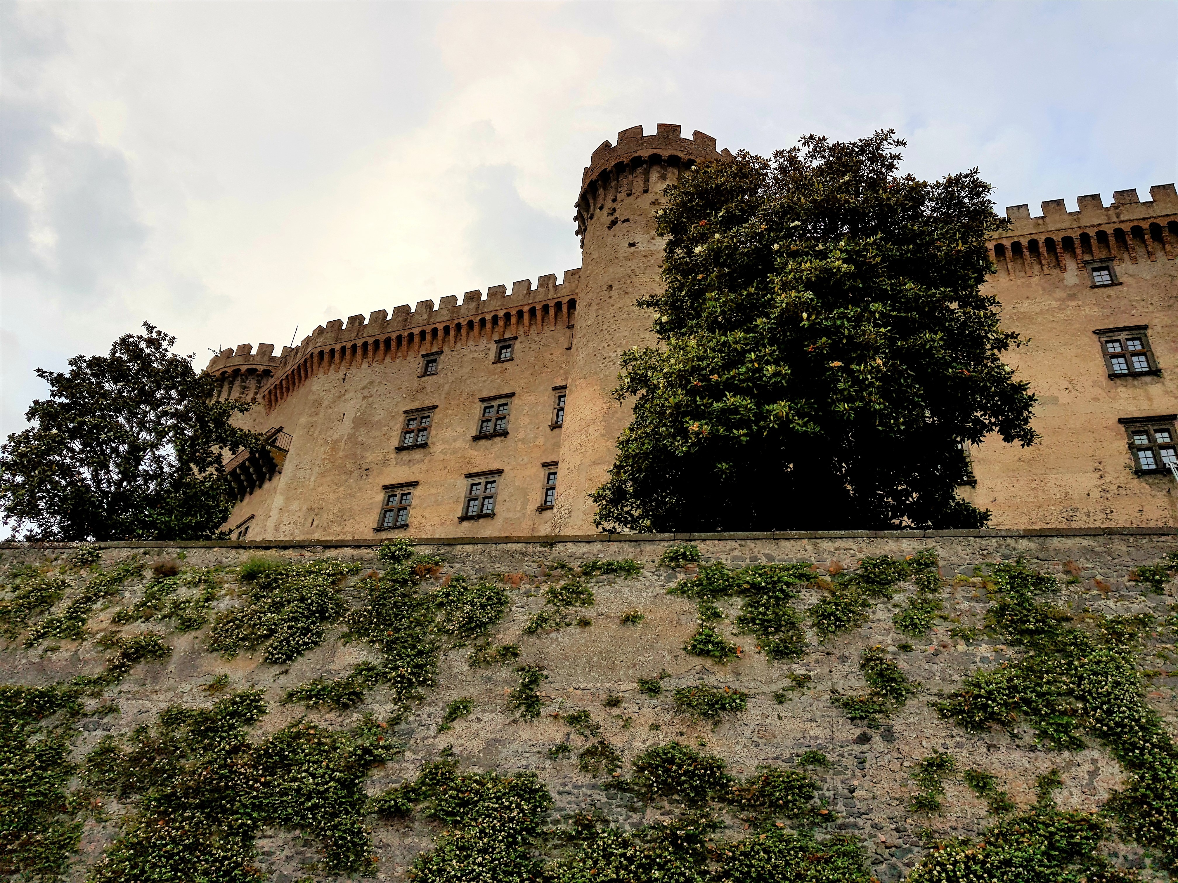 Facciata del castello.